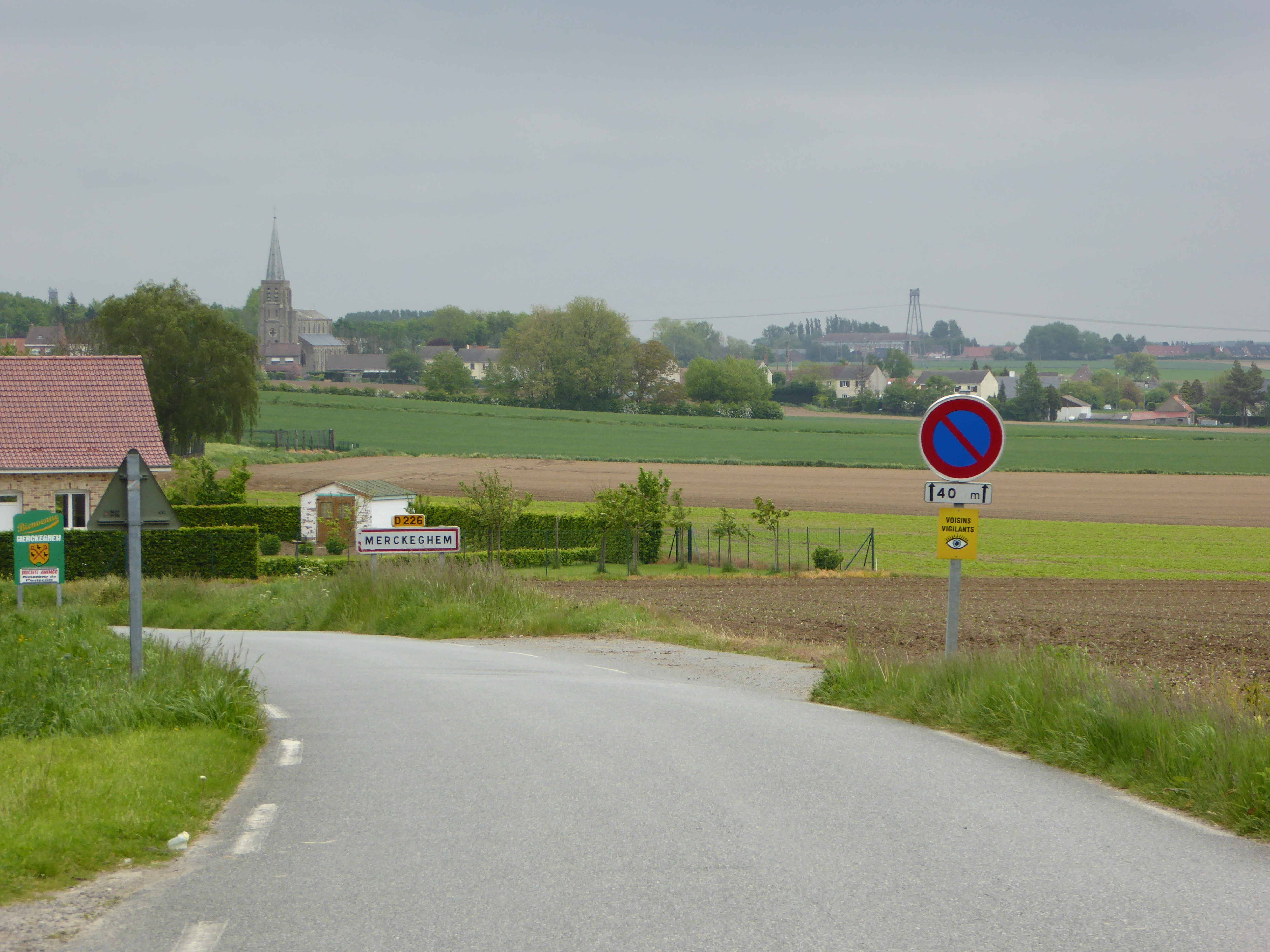 Panneau sur le "Circuit autour de Sainte Mildrede" de la commune de Merckeghem (Nord, Fr)